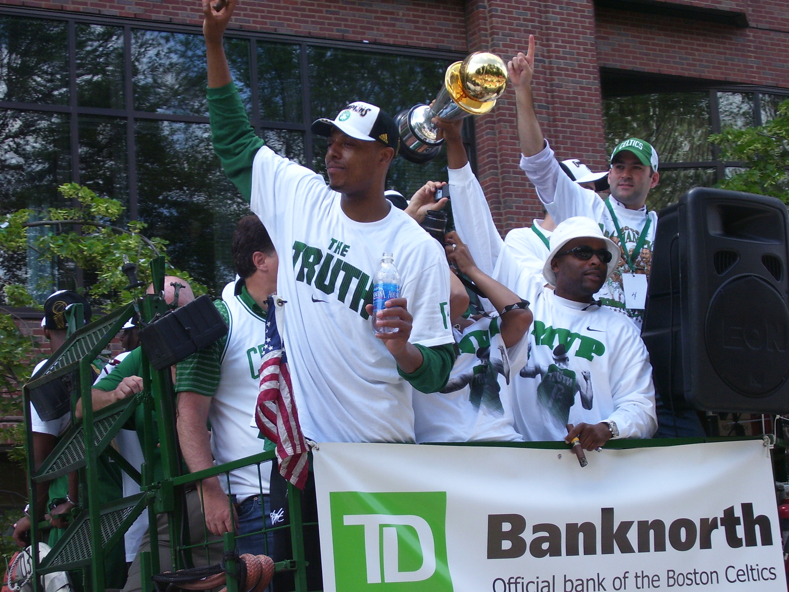 Paul Pierce in Boston Parade; Author: John W. Harmon Source: Celtic's 17th Championship Victory Parade June 19, 2008